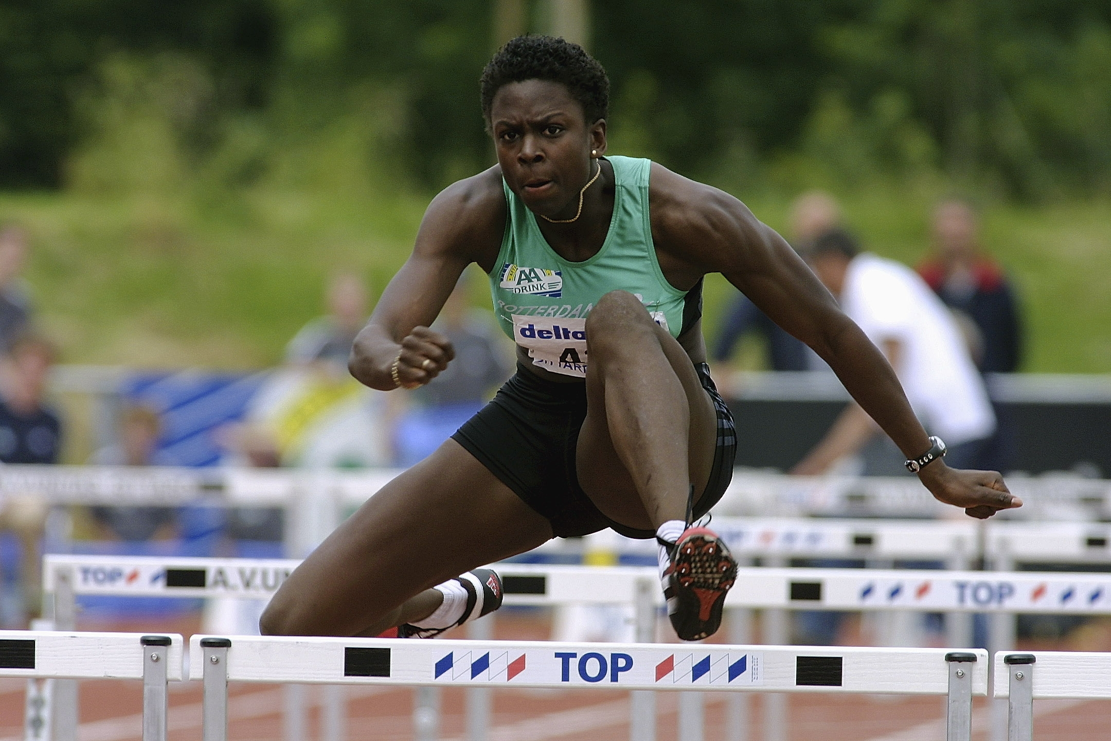 Judith Vis during the 2002 Dutch Championships in Sittard, The Netherlands